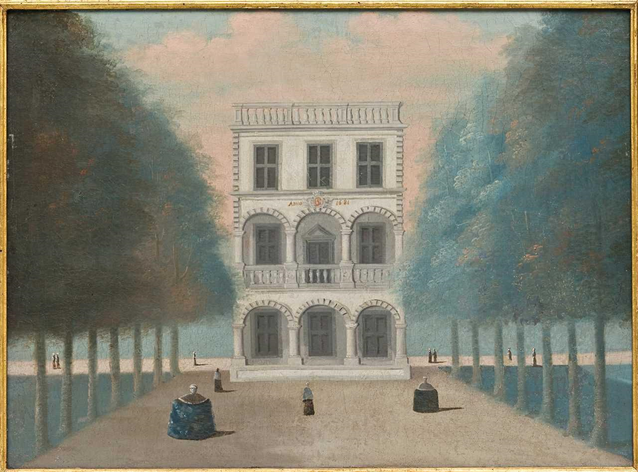 Kronborg Have 1759